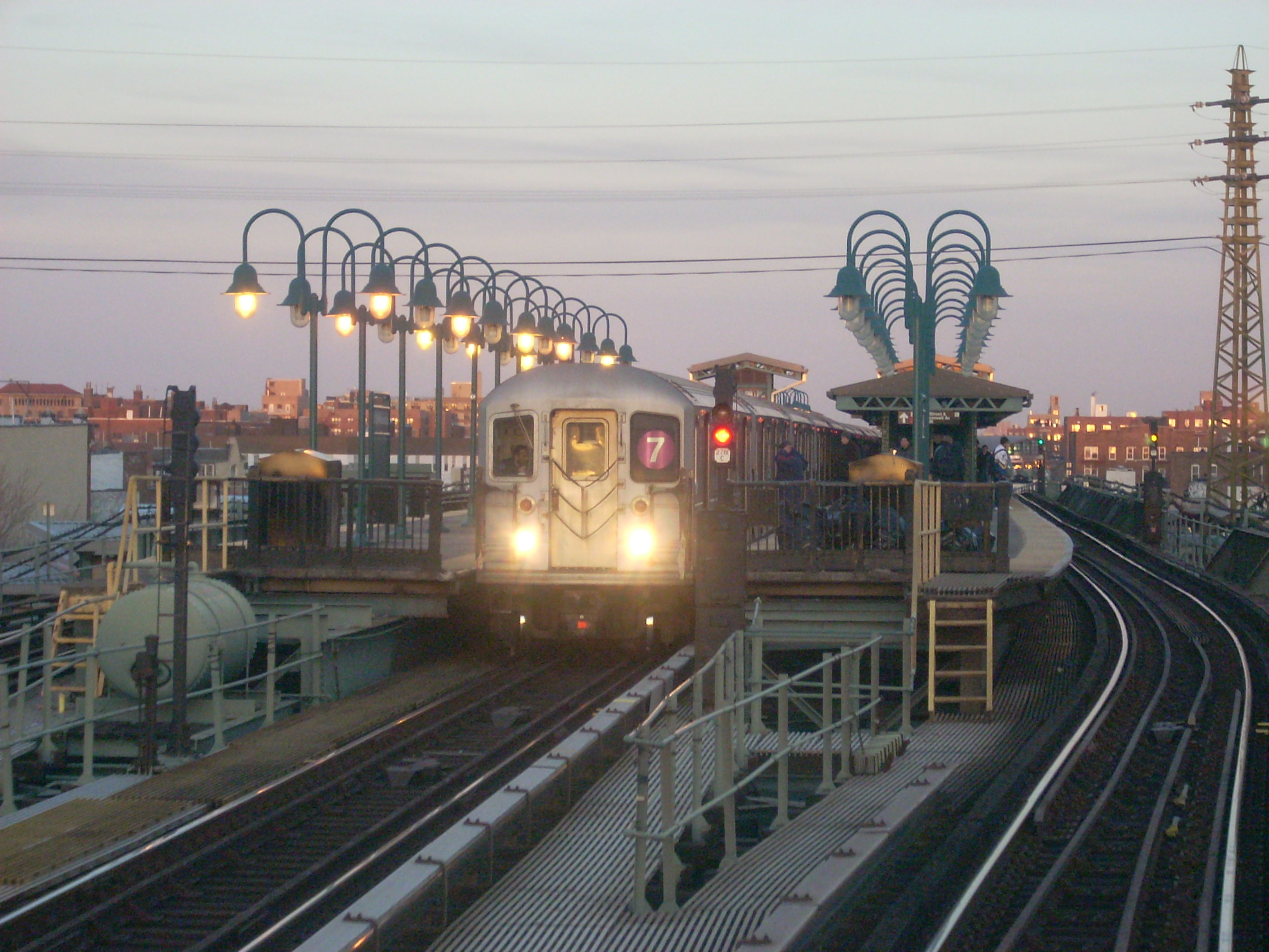 Railfan window view of 61st Woodside with Manhattan bound 7 train on the center track